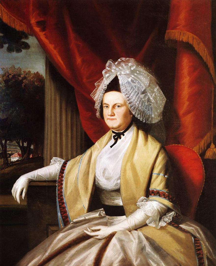 Owner/Location: Virginia Museum of Fine Arts (United States - Richmond) Dates: circa 1779 Artist age: Approximately 28 years old. Dimensions: Height: 135.89 cm (53.5 in.), Width: 109.22 cm (43 in.) Medium: Painting - oil on canvas